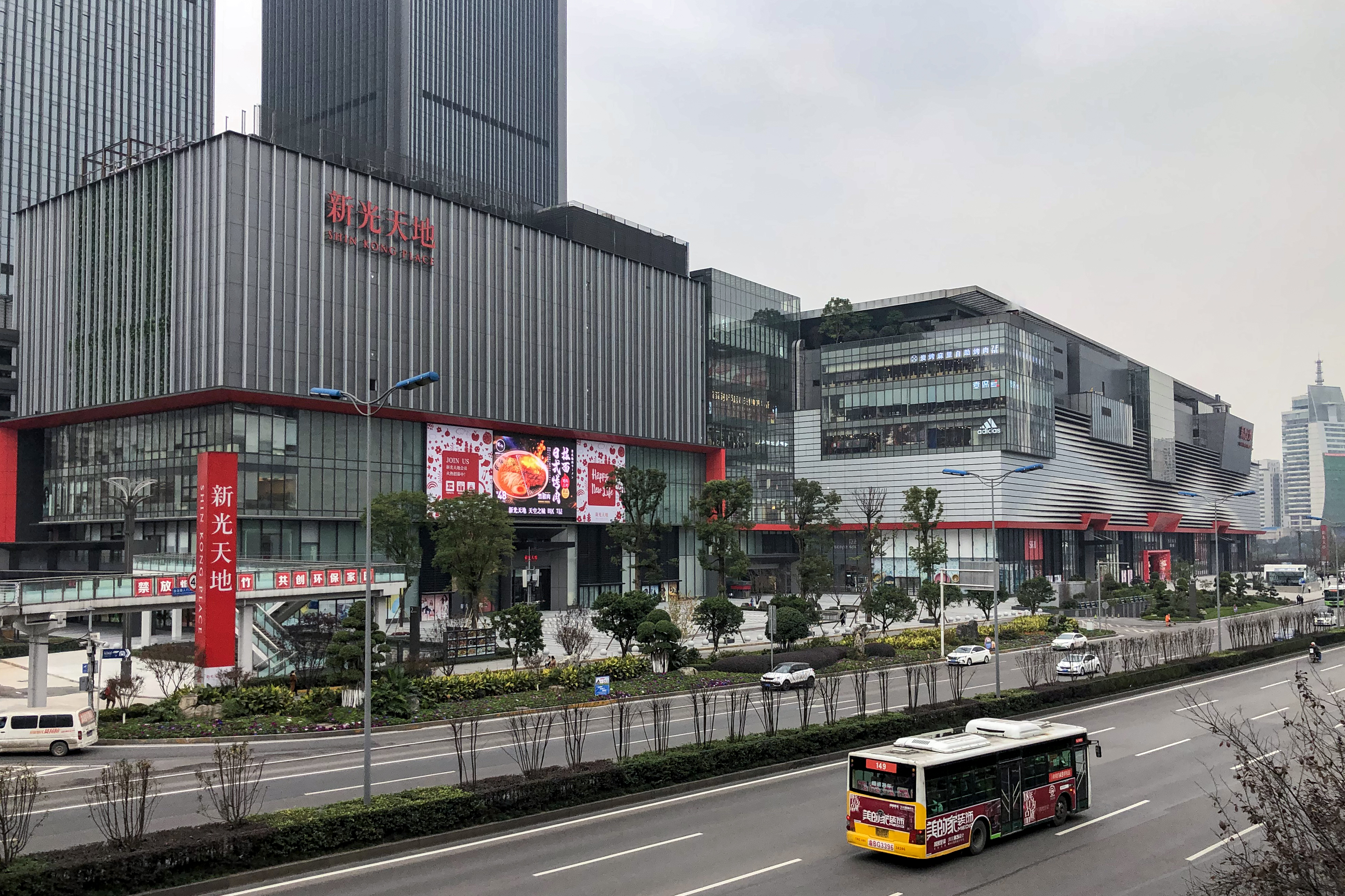 Taken on a pedestrian bridge after a visit to Conan Cafe.